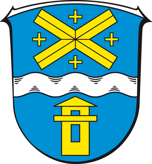 Coat of Arms of Obertiefenbach